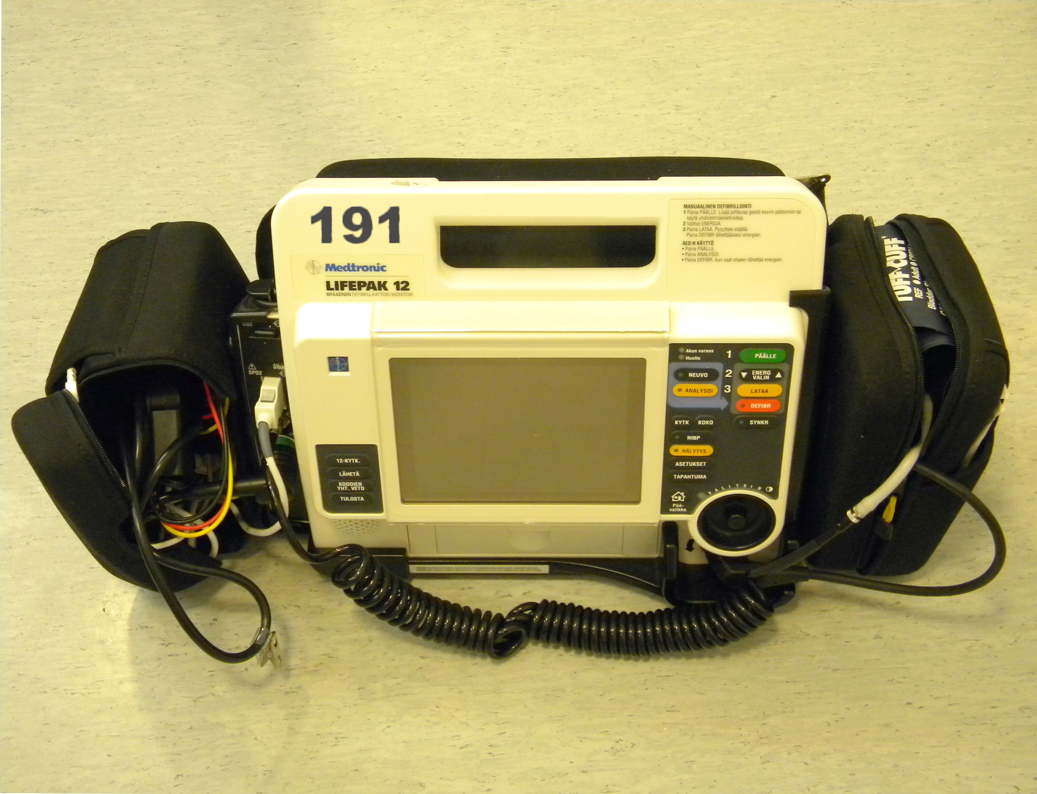 Biphasic defibrillator, ECG, NIBP SpO2 monitor